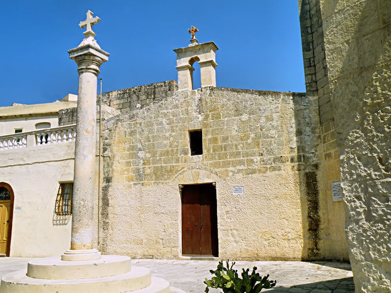 Malta